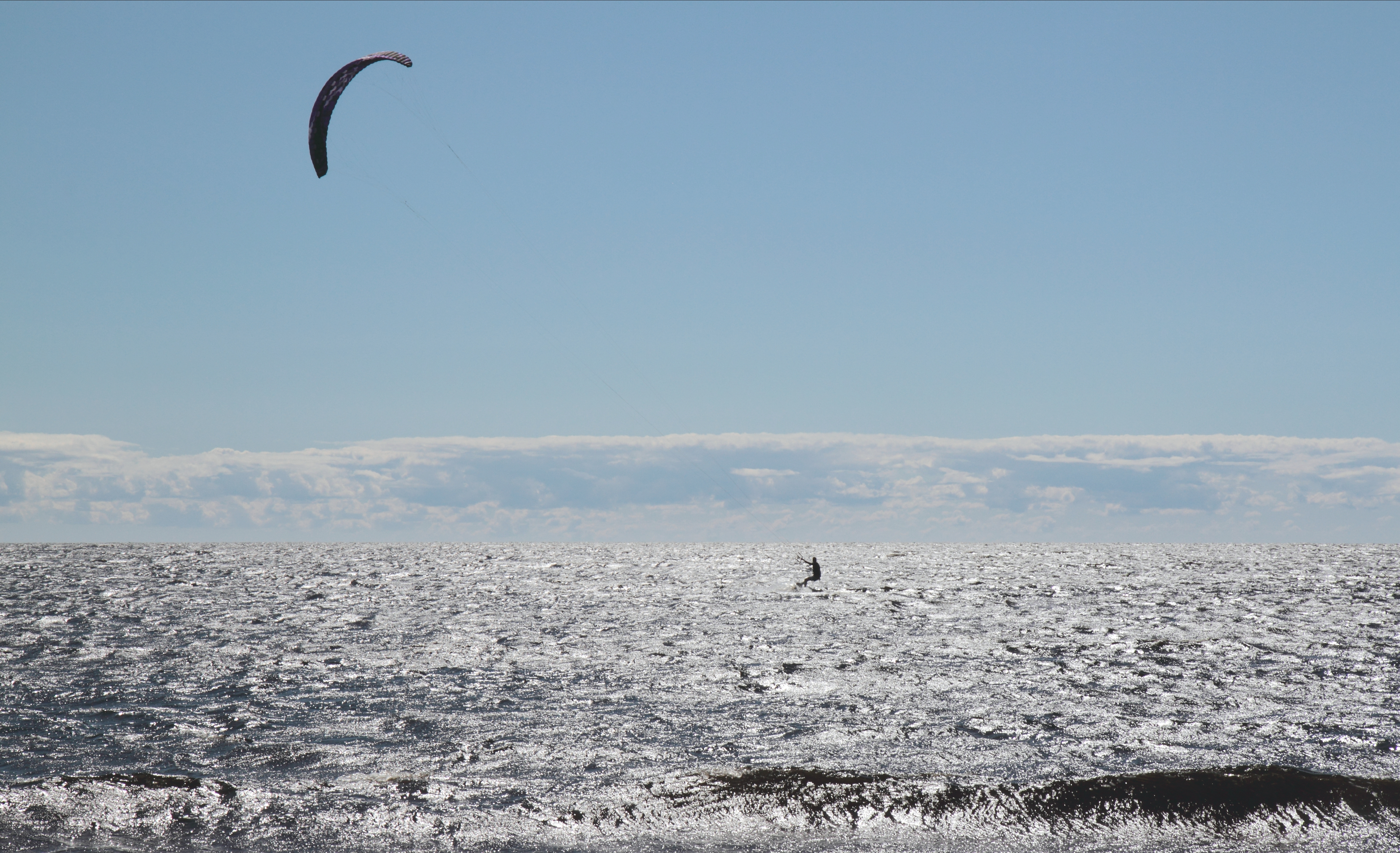 Kitesurf, Natashquan, Quebec, Canada